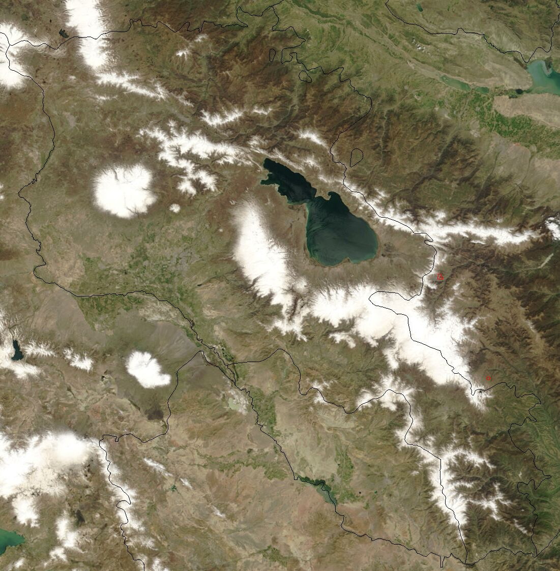 Republic of East Armenia in May 2003